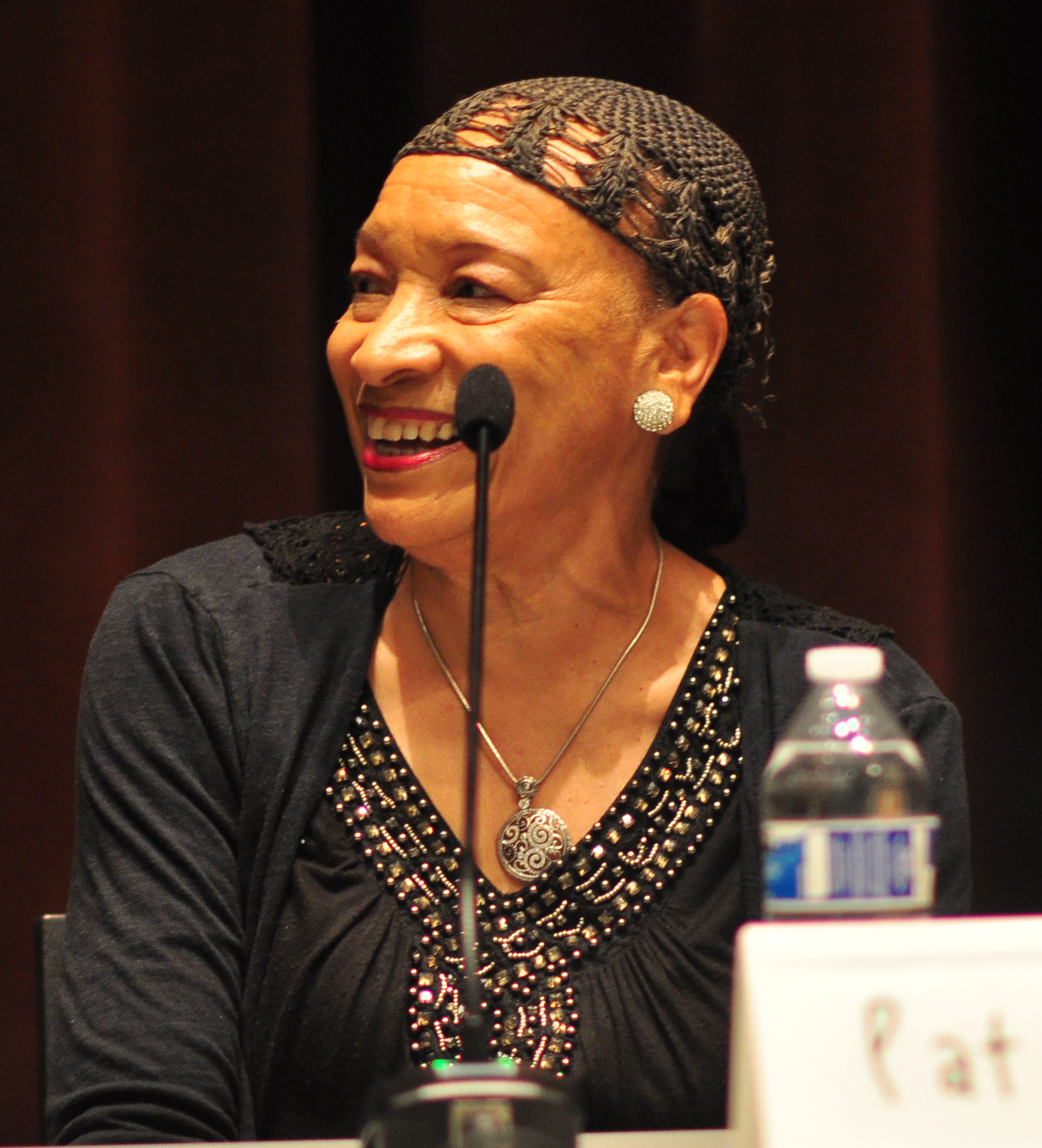 Patrinell "Pat" Wright, founder of Seattle's Total Experience Gospel Choir, at the central library, Seattle, Washington on a panel after a presentation of the documentary Wheedle's Groove.